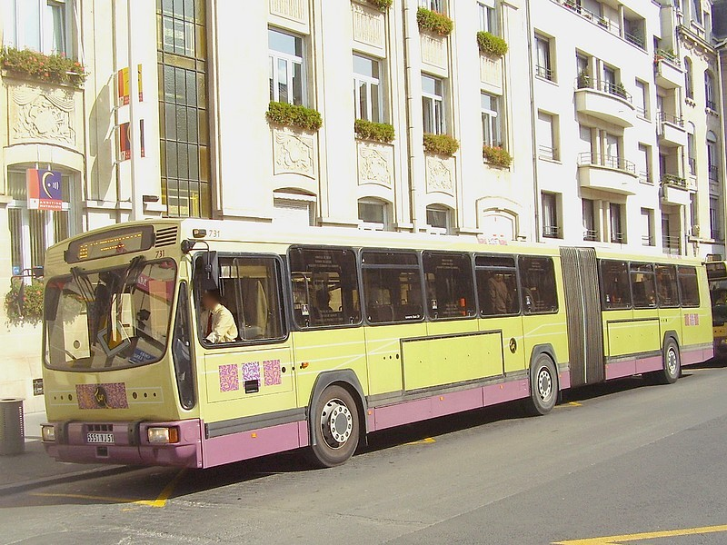 Renault PR180.2 from TUR Rheims network.